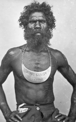 Man wearing breastplate inscribed King Sandy Brisbane